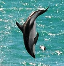 Dusky Dolphin, at Kaikoura, New Zealand. Photo by Sami Keinänen, cropped and rotated